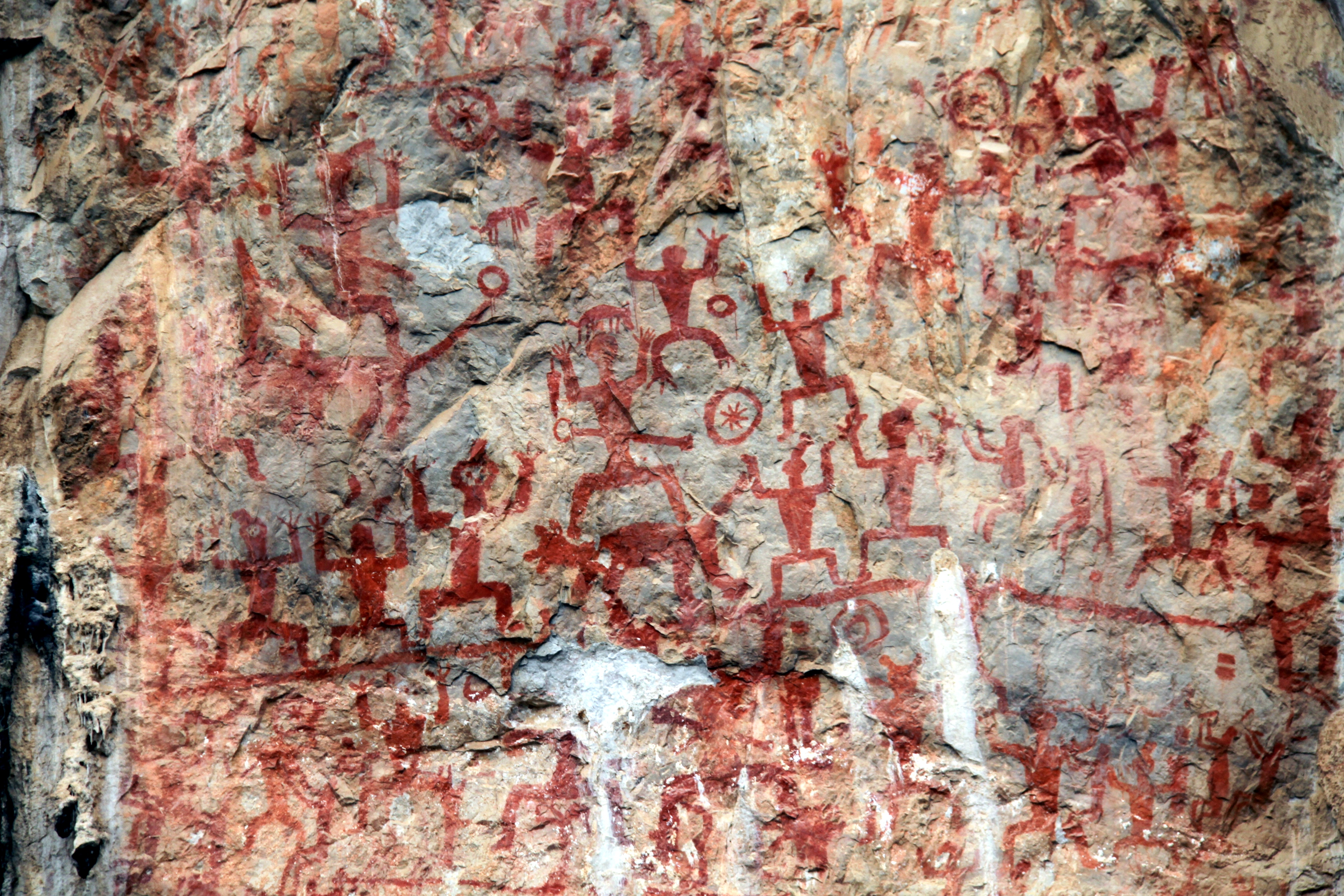 Photograph of a portions of the main rock painting of the Rock Paintings of Hua Mountain. The paintings are located on a cliff face along the west bank of the Mingjiang River in Yaoda Town, Ningming County, Guangxi, China.